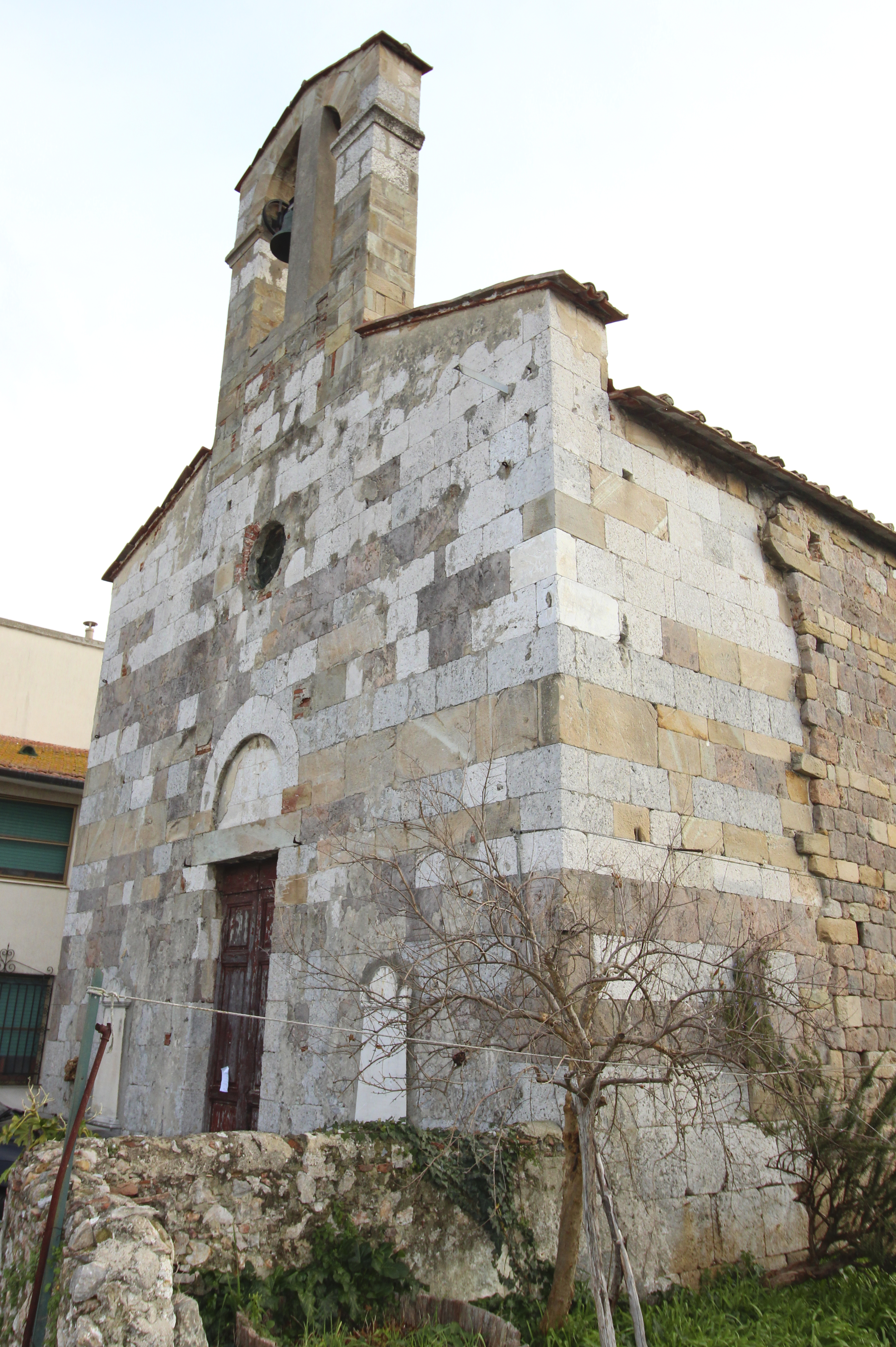 Church San Bartolomeo, Campo, hamlet of San Giuliano Terme, Province of Pisa, Tuscany, Italy